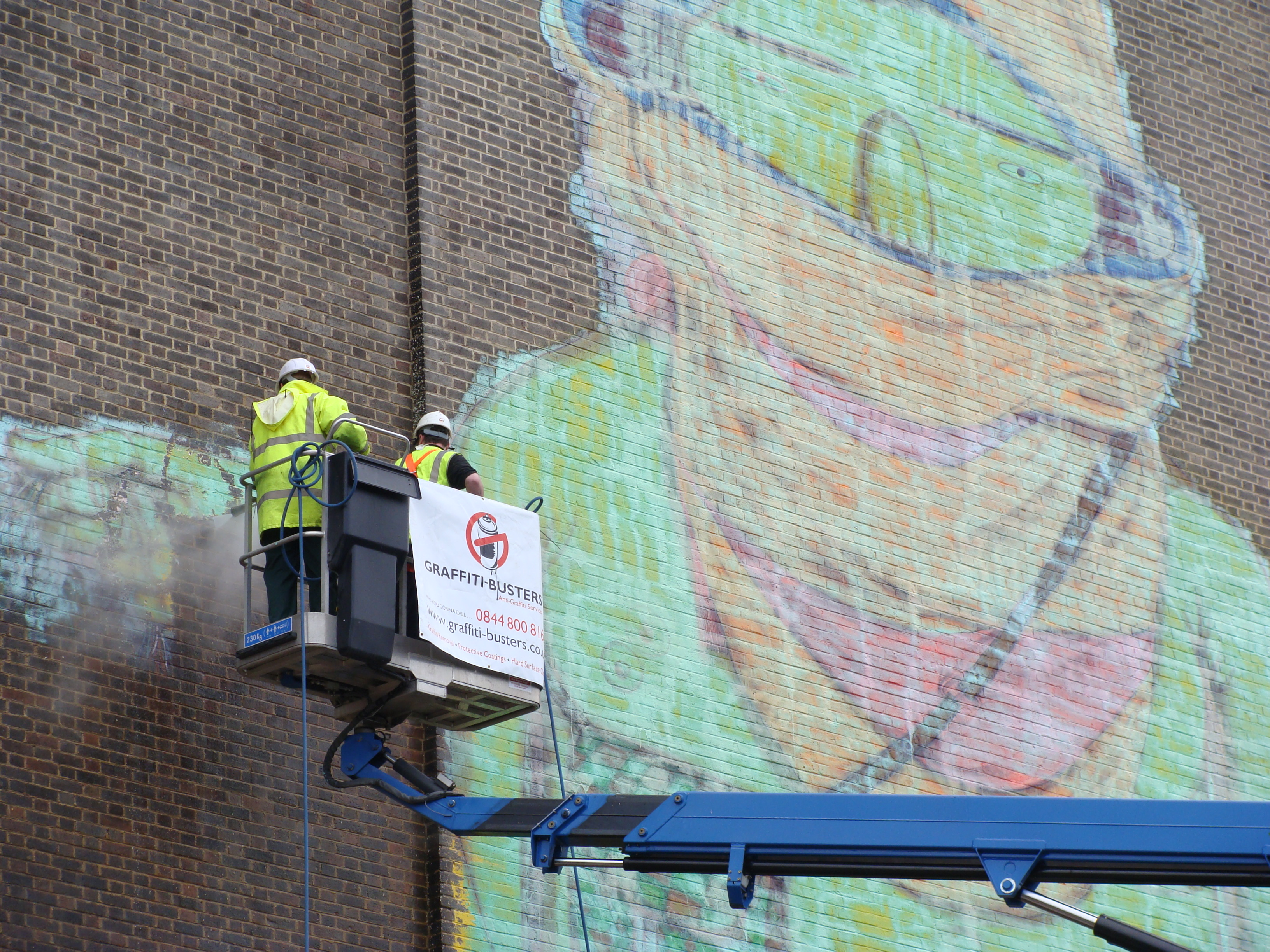 Graffiti Busters at work. The Tate Modern exhibition Street Art ends, appropriately, with graffiti removal on a large scale. Here, a massive figure by Brazilian artists Os Gêmeos, one of six artworks on the riverside façade, is removed by specialists using steam jets operated from a cherry picker.